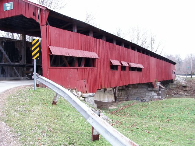 Exterior view of the Dunbar Covered Bridge